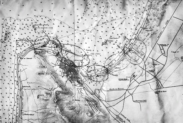 The bombardment plan of Haifa madehastily by the Egyptian Navy destroyer "Ibrahim El Awall" in October 1956.